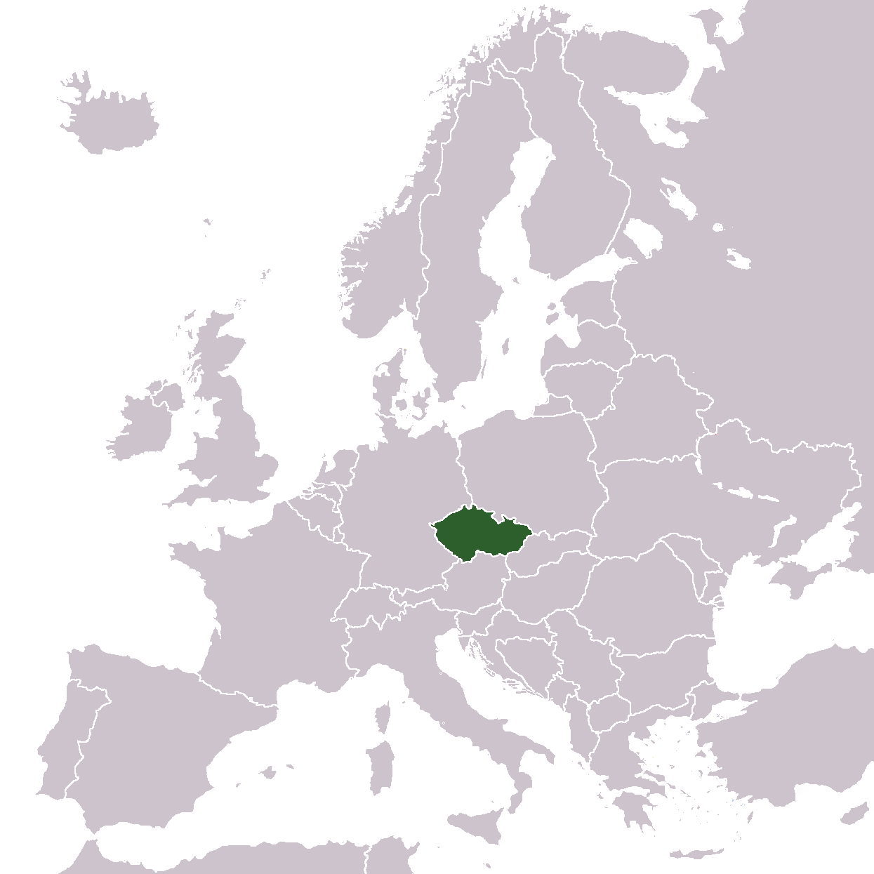 Location of Czechia, Czech Republic in Europe